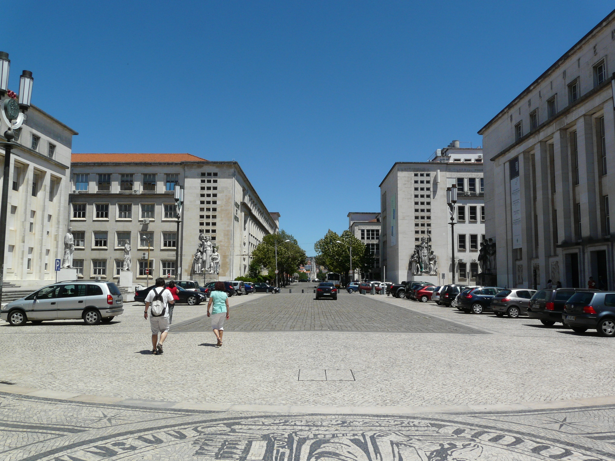 The main axis of the university at Coimbra.